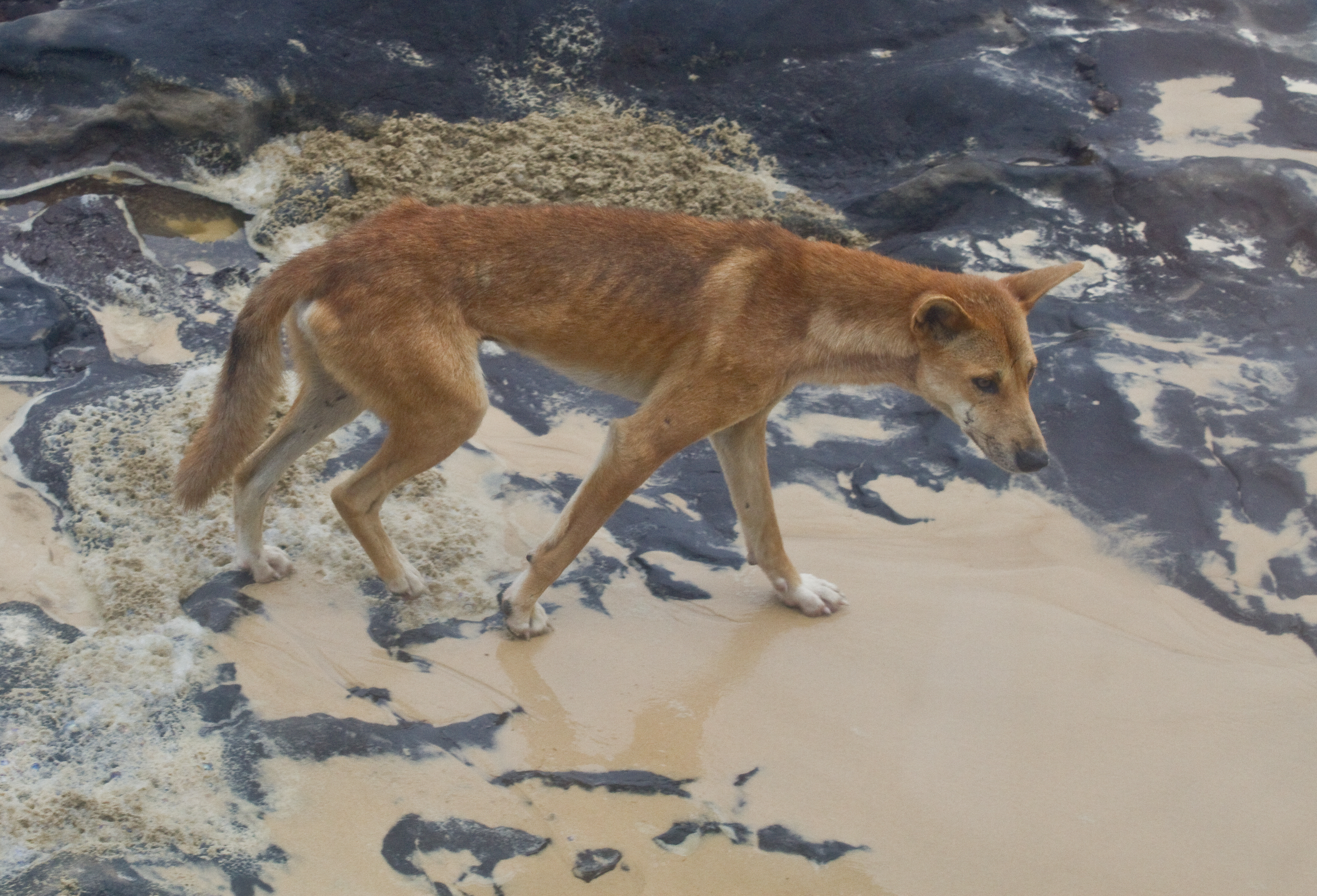 Dingo - Canis lupus dingo, Fraser Island